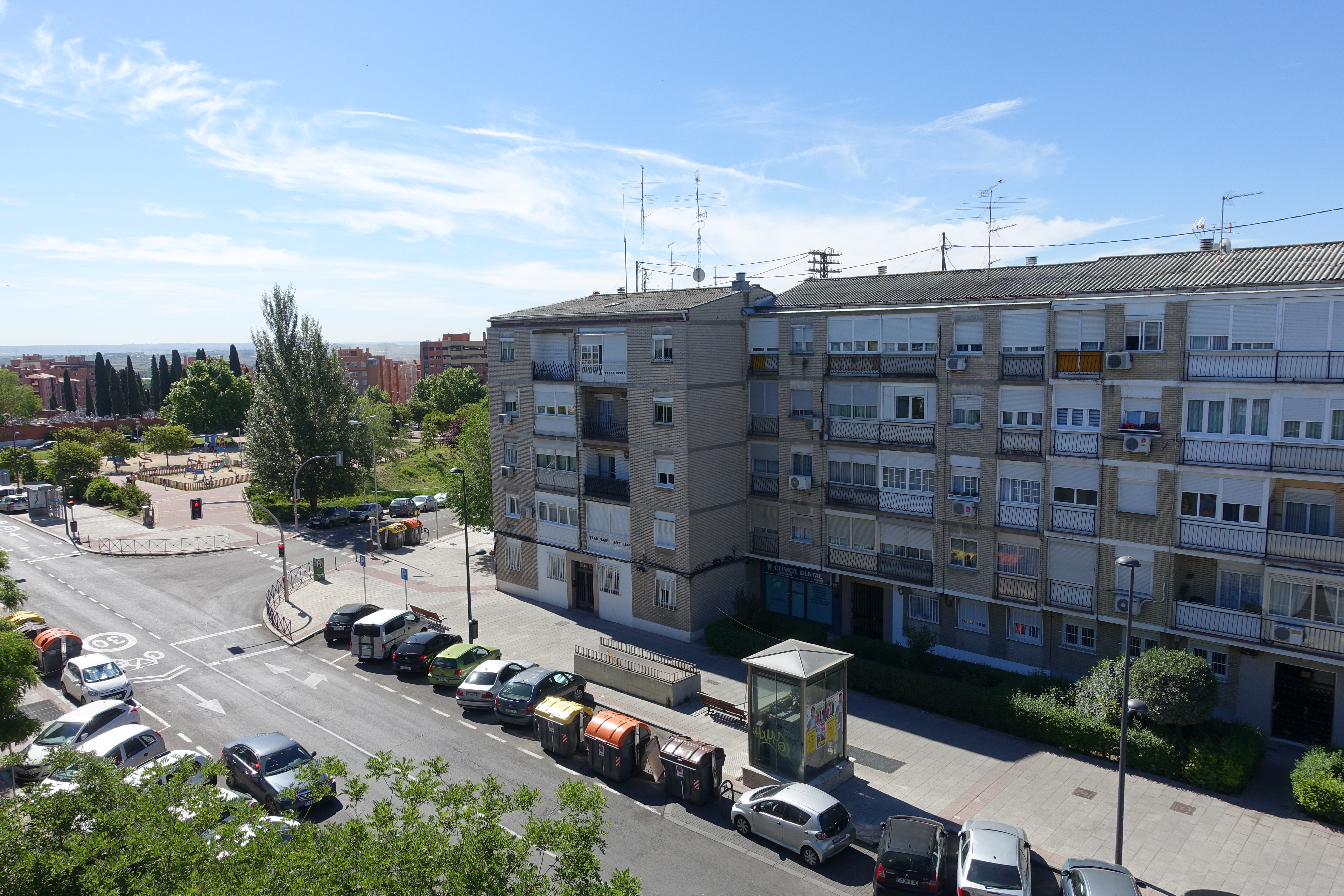 View of the main street through the Casco Histórico with elevator shaft to Metro San Cipriano.